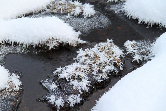 Snow Flowers Long wisps of ice crystals make snow flowers on the grass